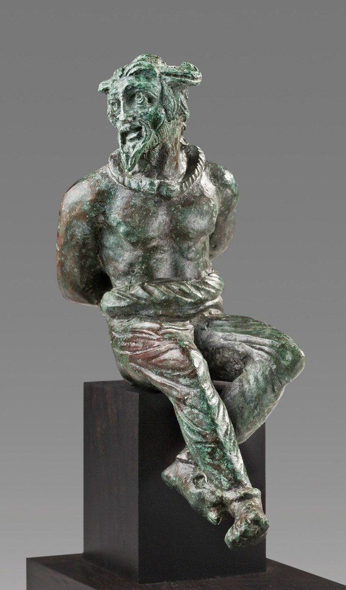 Ancient to Medieval (And Slightly Later) History Artifacts, Castles, Coins, Ruins & Megaliths - An all-original, photo-rich Tumblr